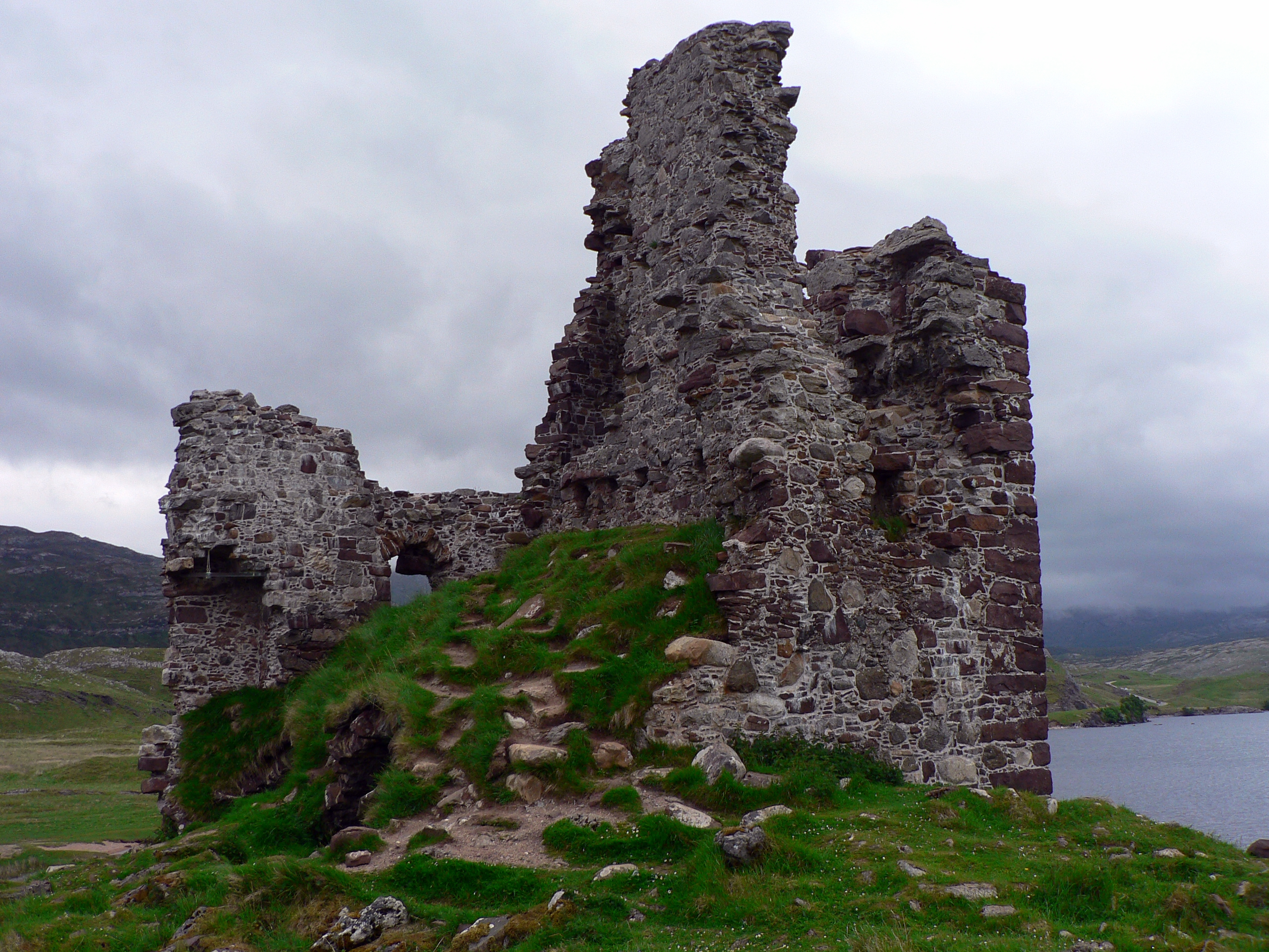 Ardvreck Castle ruins, Scotland Author: Wojsyl